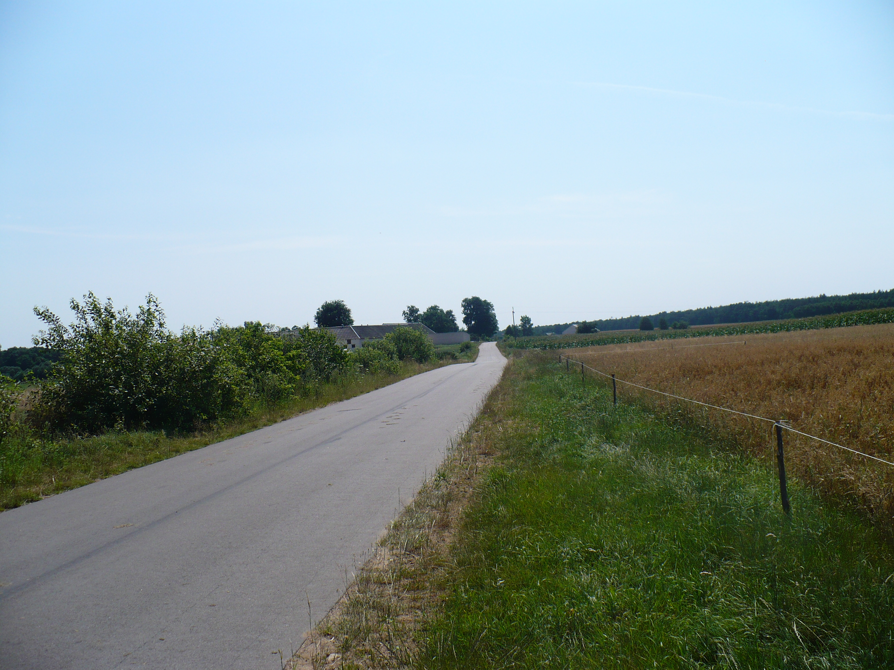 This is the view from the side of the village Chrzczony on the small village Rostki in the gmina Troszyn, on the Polish Mazovia.